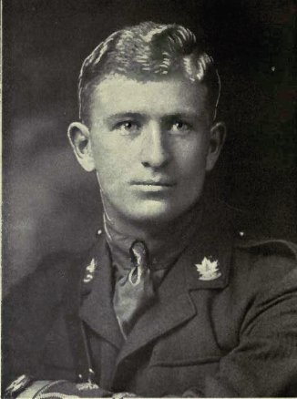 Acting Major Okill Massey Learmonth VC, Canadian Expeditionary Force, World War I, The Canadian Annual Review War Series, Volume 4 (Toronto : Canadian Annual review)